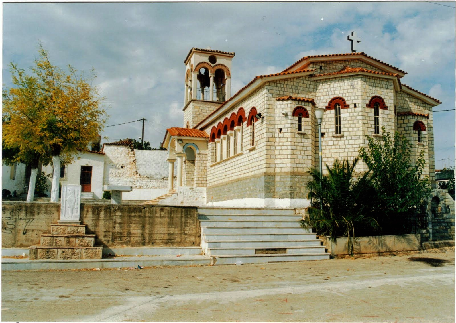 Agios Ioannis Tehologos